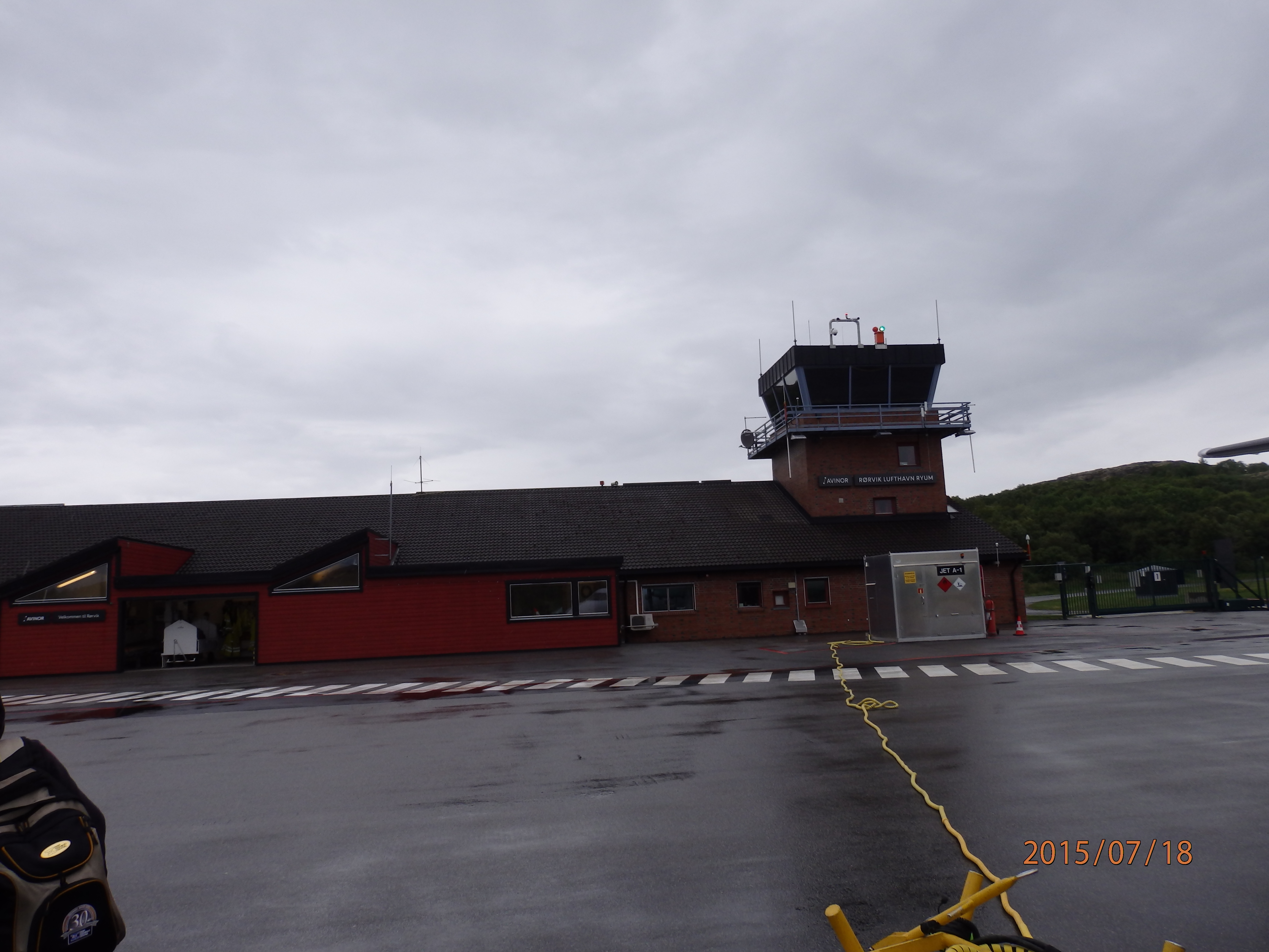 Rørvik lufthavn Ryum